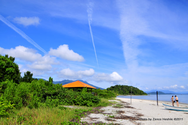 View of the Cardoso Island, in Cananéia, São Paulo, Brazil.